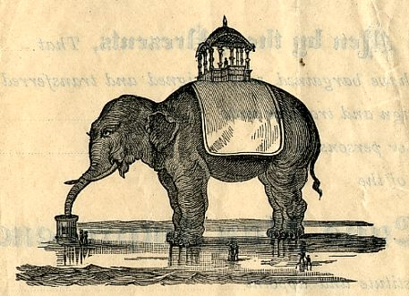 Vignette mit dem Bauwerk The Light of Asia in Cape May